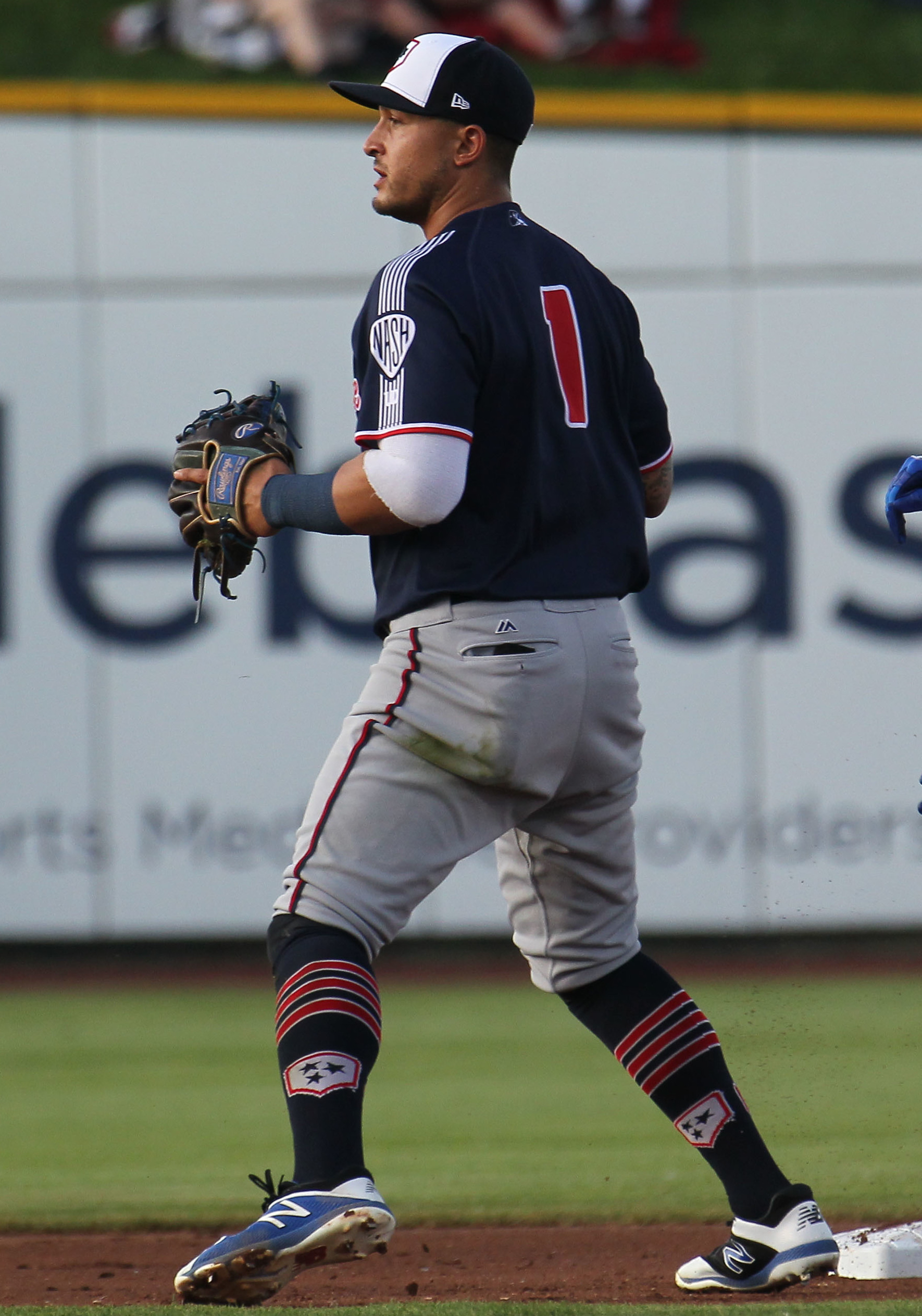 Christian Lopes of the Nashville Sounds holds on an Omaha Storm Chasers baserunner during a 2019 game at Werner Park in Omaha